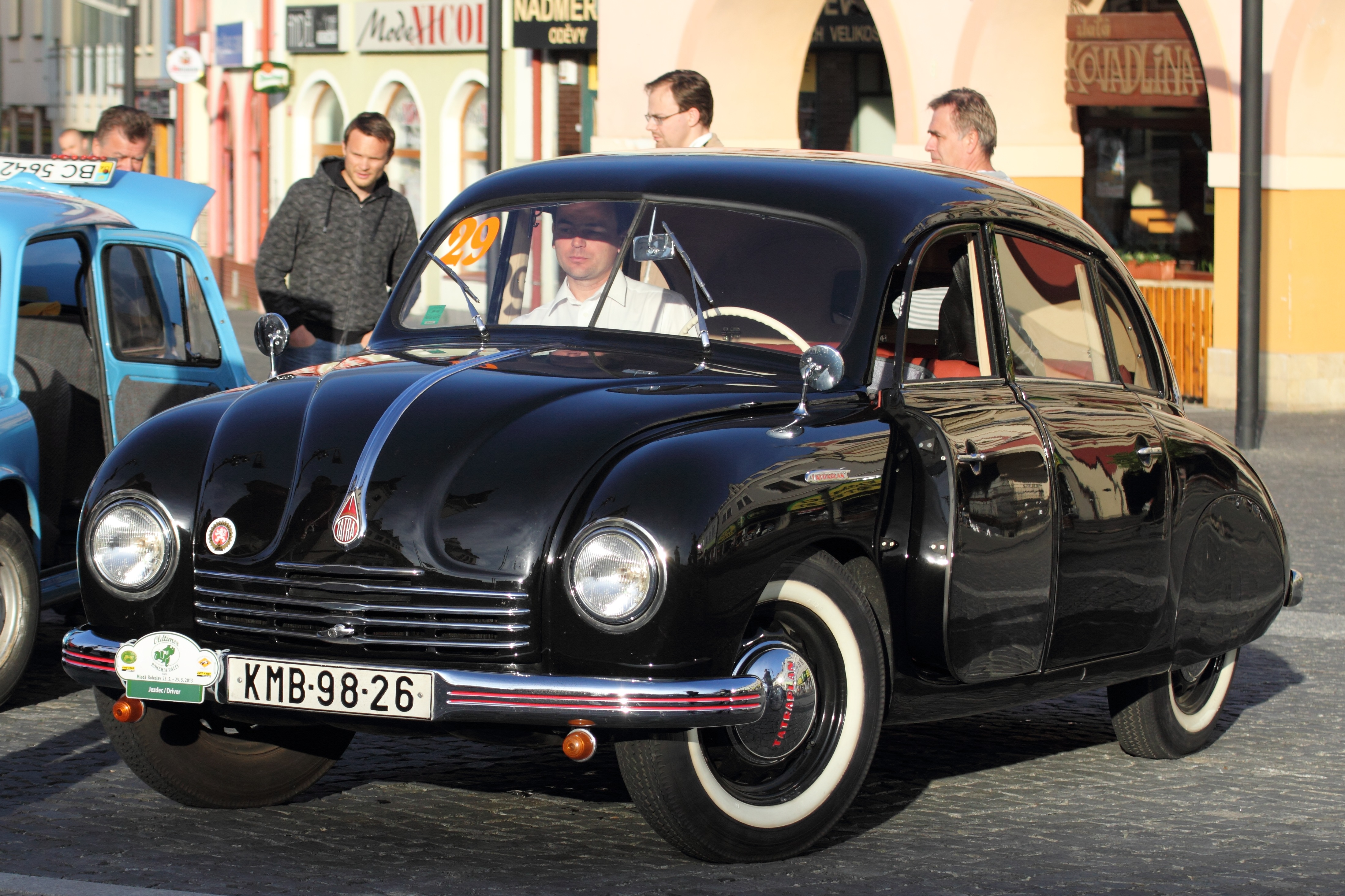 Tatra T600 Tatraplan (1952), 2013 Oldtimer Bohemia Rally, Mladá Boleslav